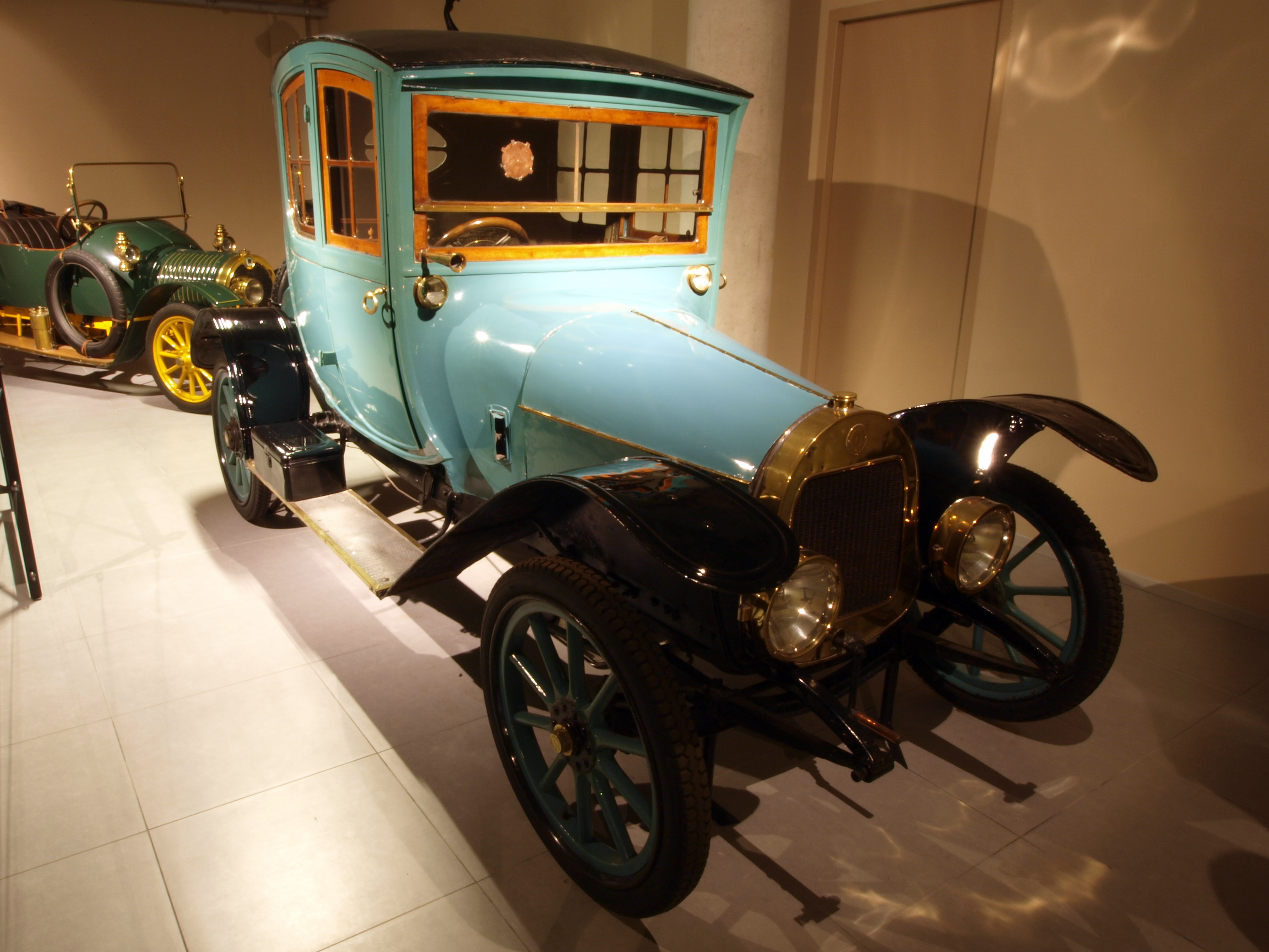 Gregoire 12/14-HP (Country of origin: France). Photographed at the Louwman museum, The Netherlands.